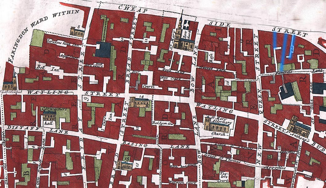 The Wards of Breadstreet and Cordwainer Including Bow Lane, Friday Street, New Queen St., Watling St, Distaff Lane and Budge Row. Grope Countelane in the middle (blue) is bordered by Bordhawlane on the right, and Puppekirtylane on the left. Although these streets are mostly gone, the map does demonstrate the number of narrow streets in the area. The 1720 map is from John Stow (John Strype, editor), Survey of the Cities of London and Westminster London, 1720, 2 volumes The overlaid streets are from Holt, Richard; Baker, Nigel (2001), Lynne Bevan, ed., Indecent Exposure - sexuality, society and the archaeological record - Prostitution in English Medieval Towns, Glasgow: Cruithne Press, ISBN 1-873448-19-8